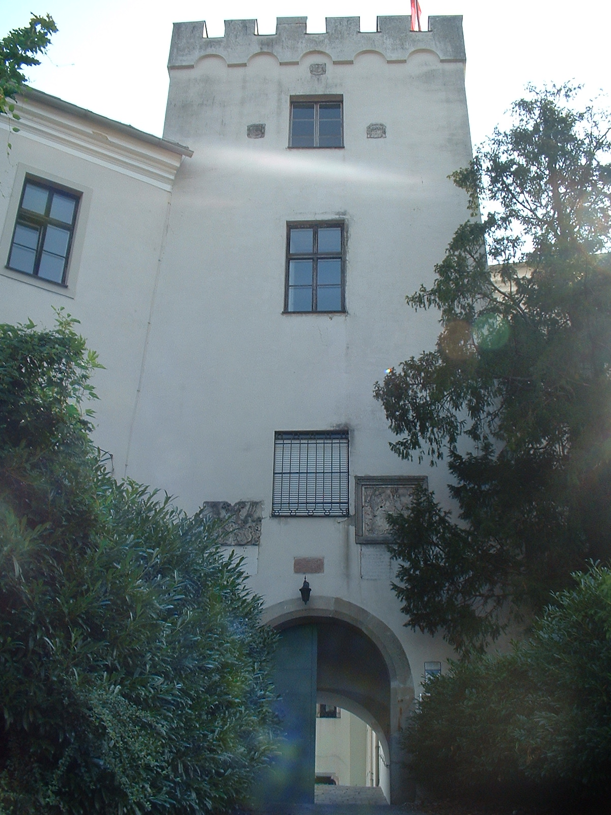 Castle of Ebelsberg, entrance